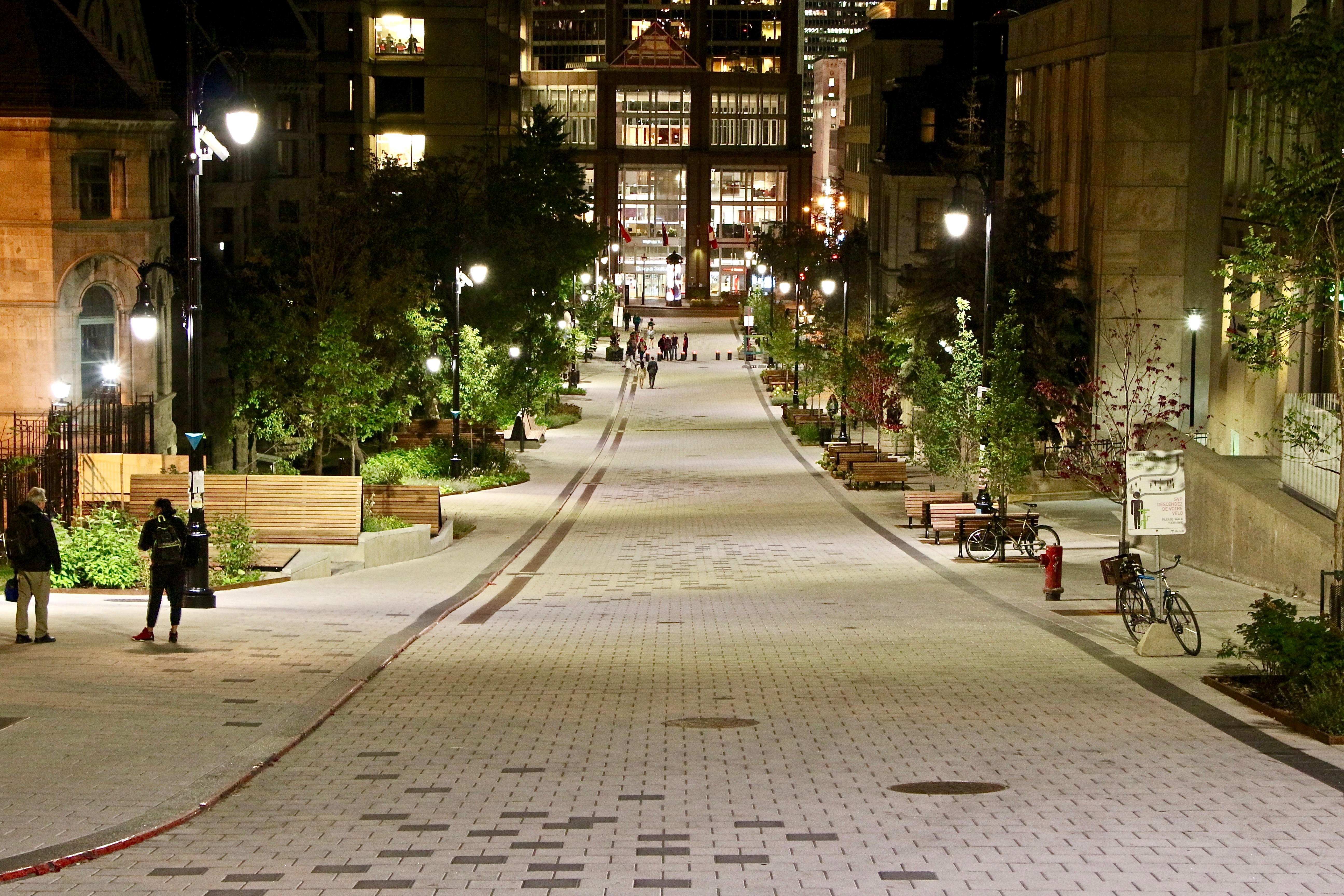 McTavish Street, Montreal, Quebec, Canada.